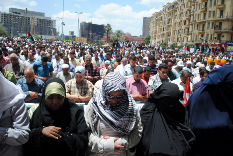 Egyptian demonstrators praying in Tahrir Square.